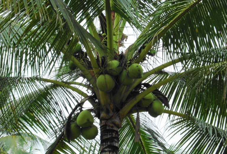 Coconut trees in Asahan regency, North Sumatra.